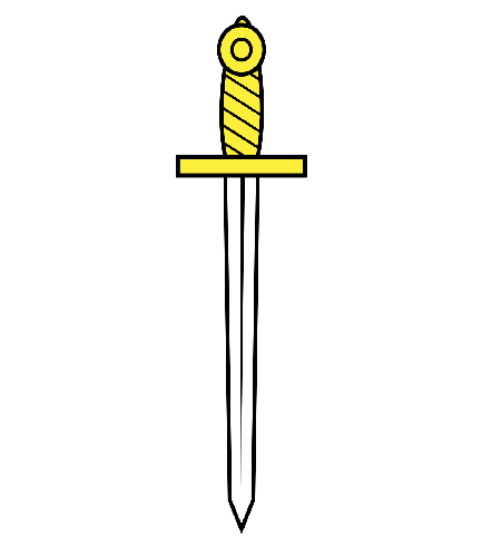 Heraldic sword, blazoned: A sword erect argent pommel and hilt or